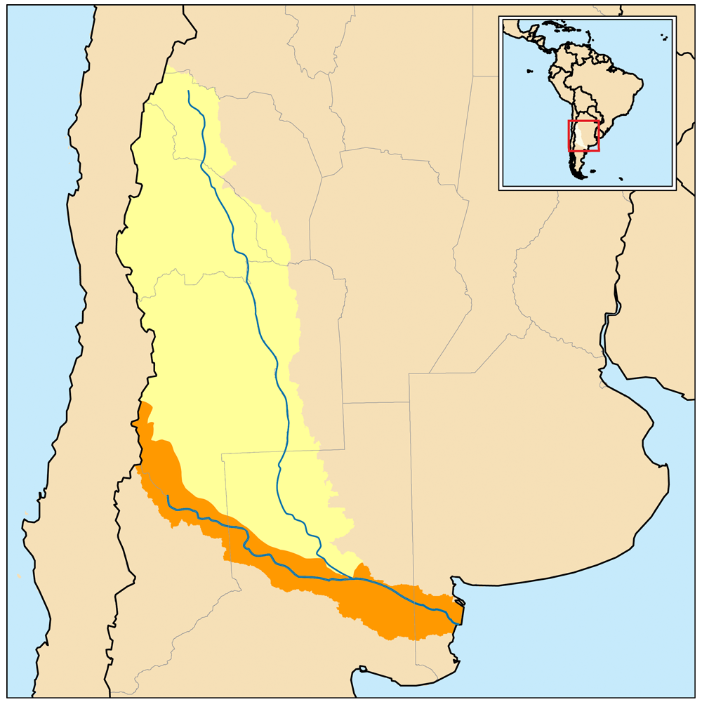 This is a map showing the Colorado (in orange) and Desaguadero (in yellow) river drainage basins.